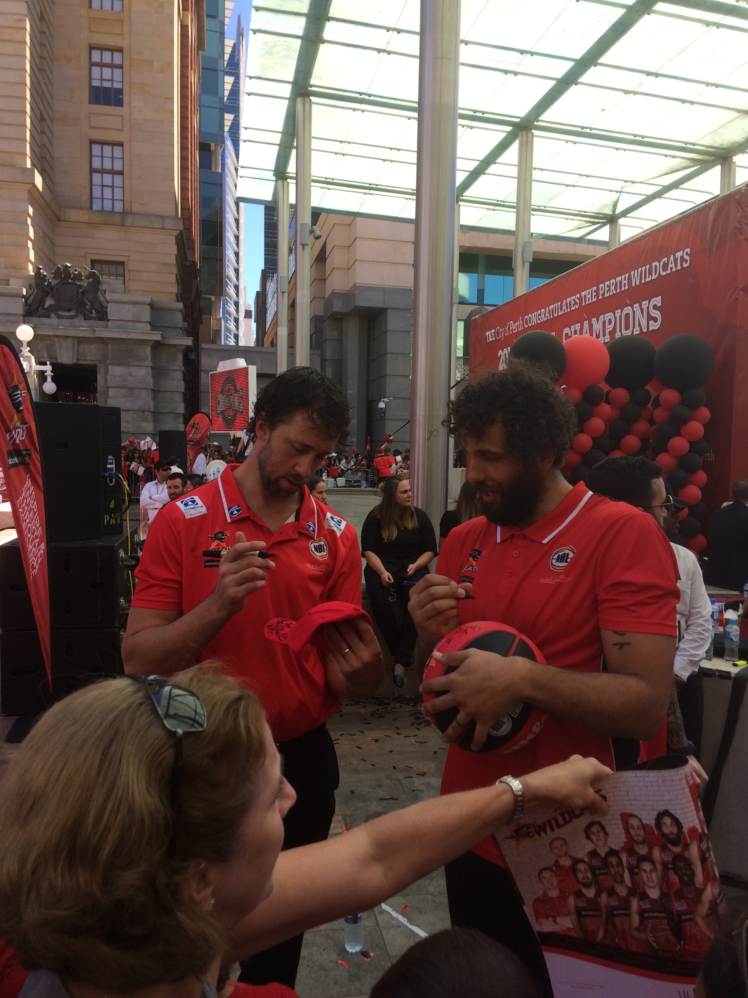 Matthew Nielsen and Matthew Knight at the Perth Wildcats' 2017 championship celebration